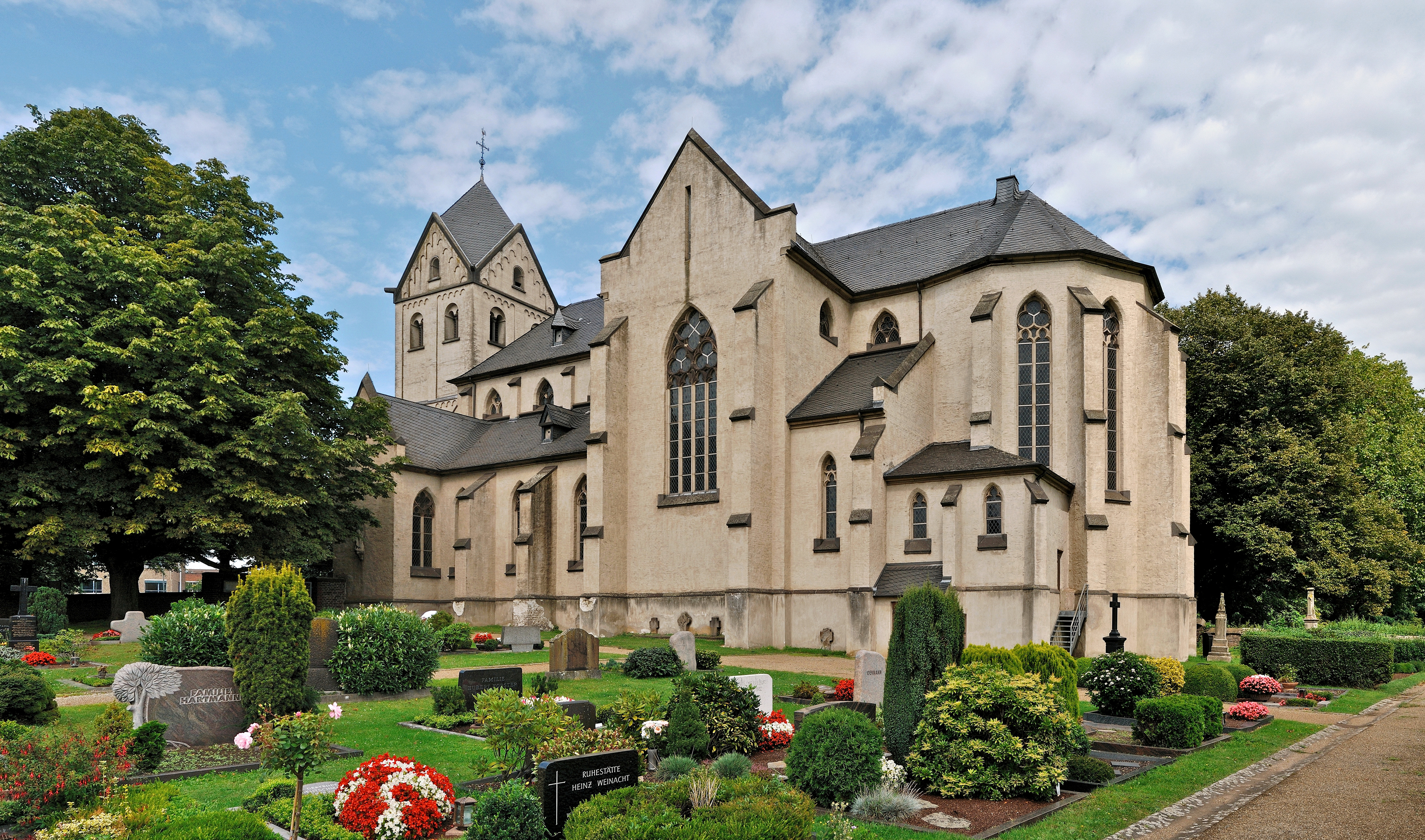 Krefeld (North Rhine-Westphalia, Germany) – Hohenbudberg – Catholic Saint Matthew Church (“St. Matthias”) – panorama of the south side as seen from its cemetery